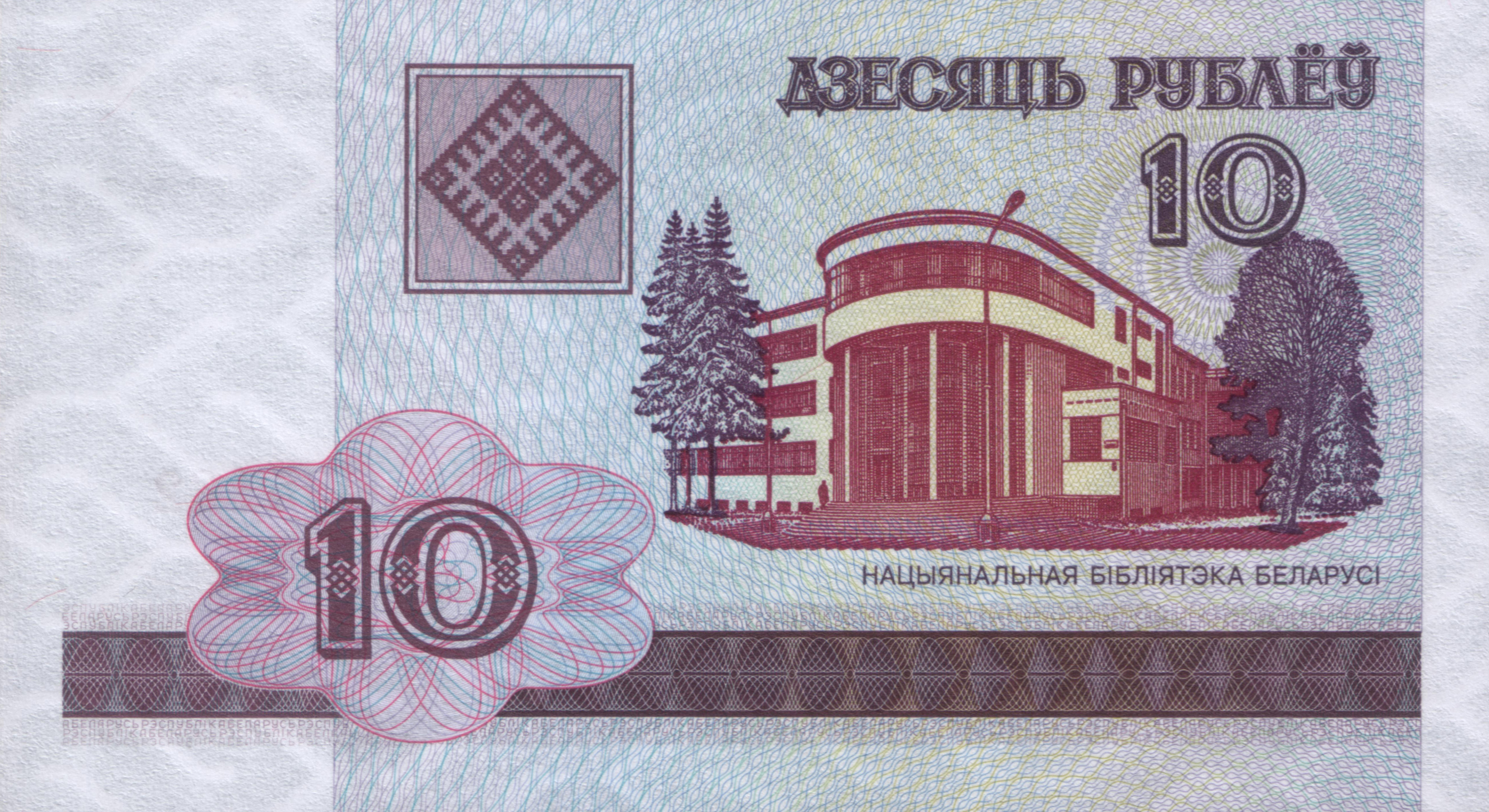 10 roubles of Belarus (2000)